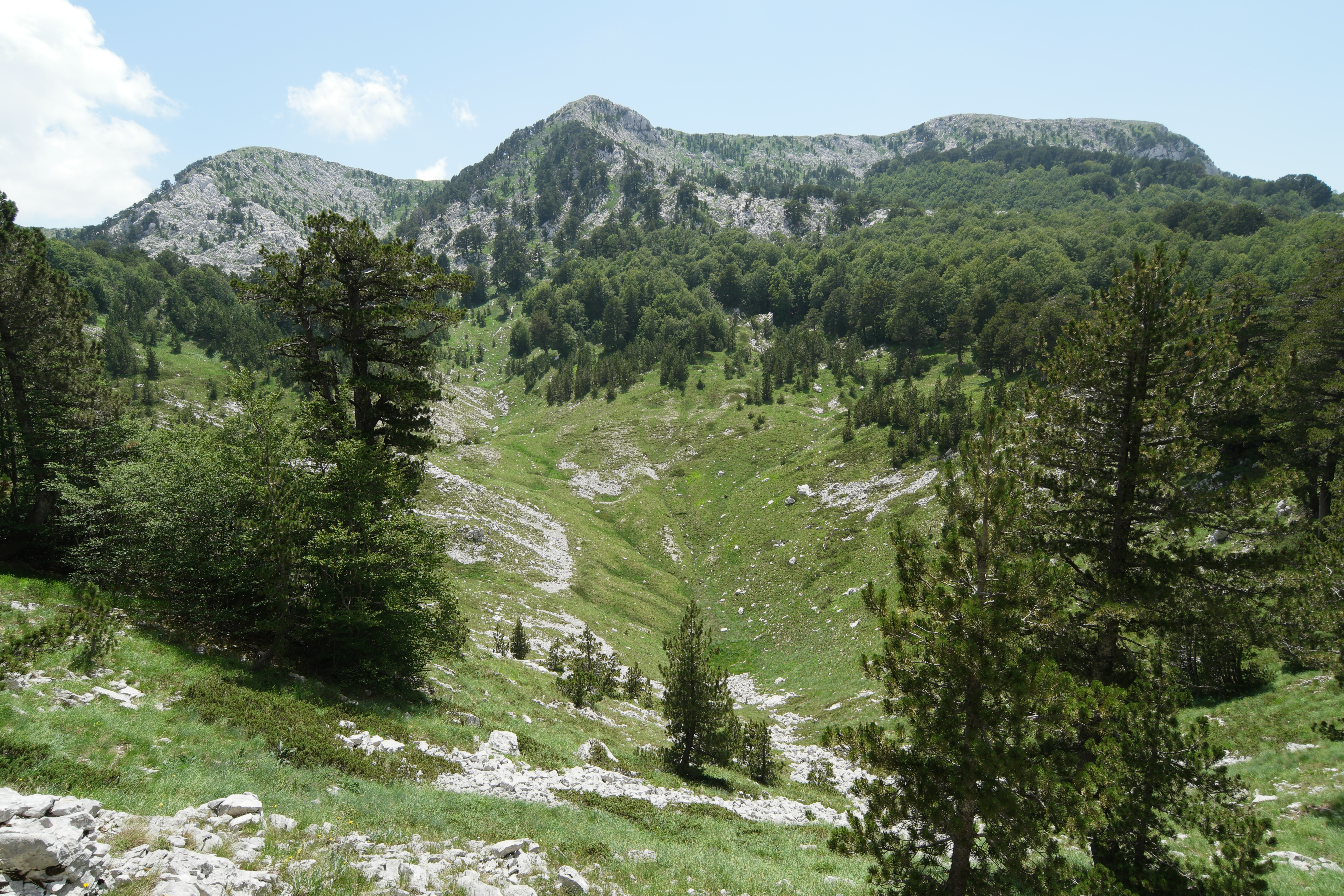 Cold-air pool Opuvani do with chionophytic communities Mt Orjen leg P.Cikovac